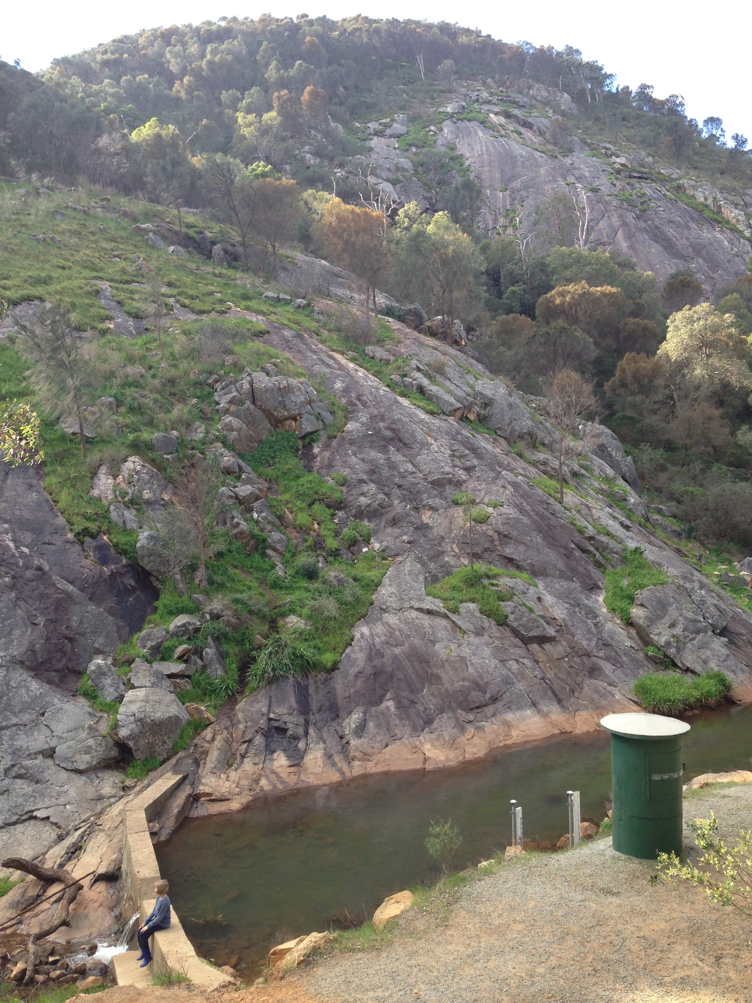 Weir on Wongong Brook, in the gorge between the South-Western Highway and Wungong Dam (view looking north)